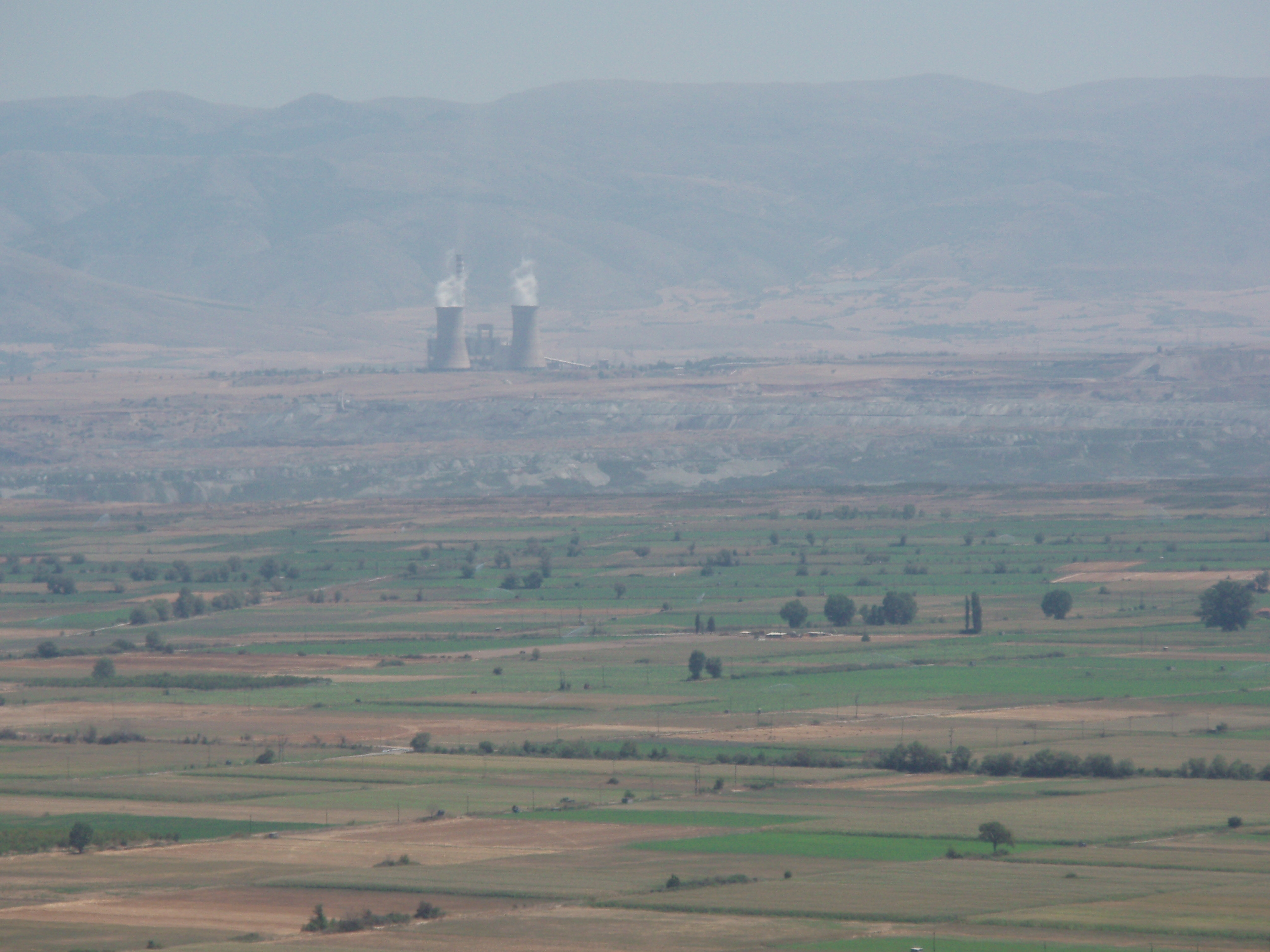 Lignite mine and power station of Amyntaio (Amynteo), Amyntaio municipality, Florina prefecture, region of Westmacedonia, Greece.